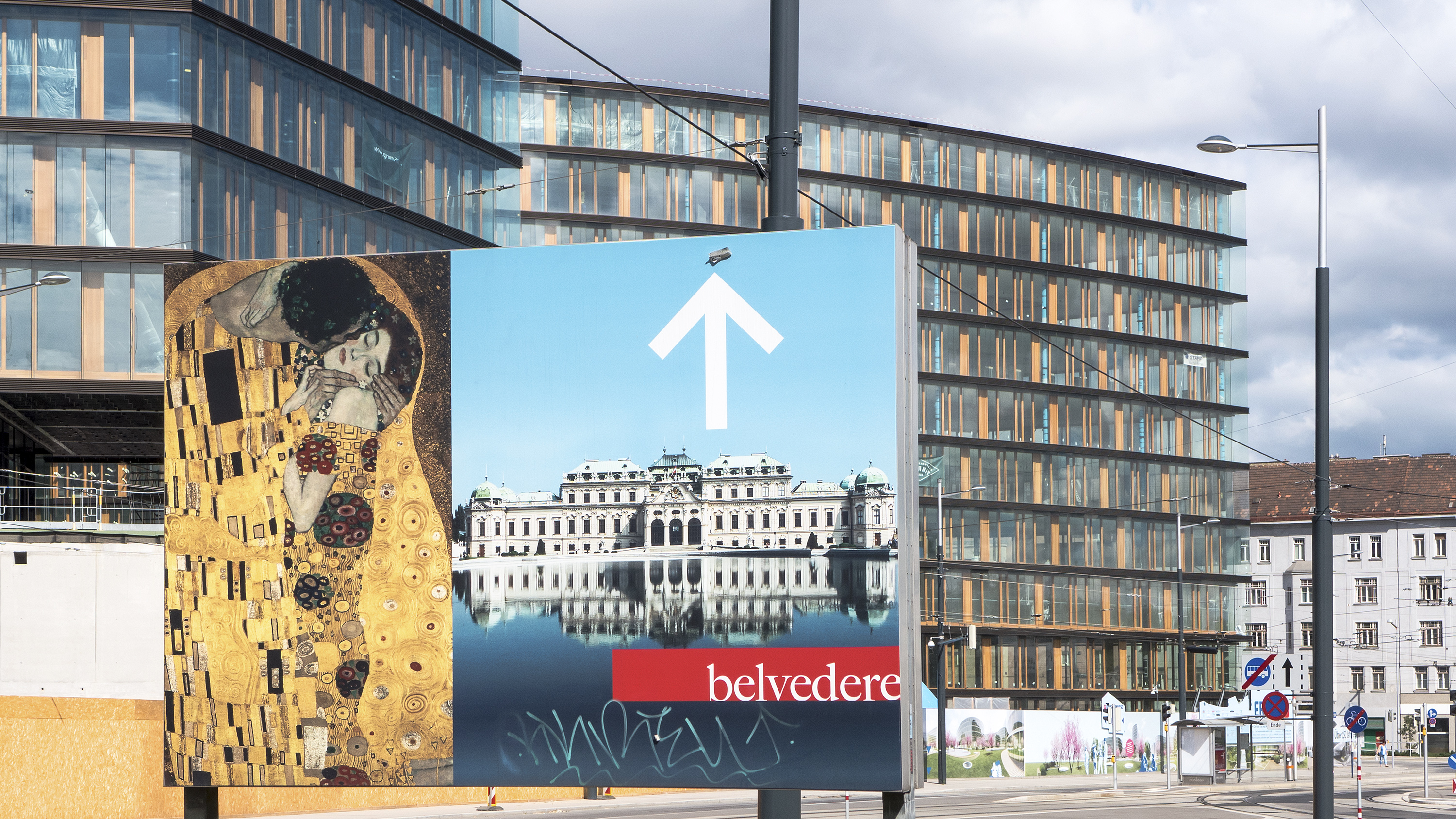 Future Quartier Belvedere in July 2014 in Vienna 10